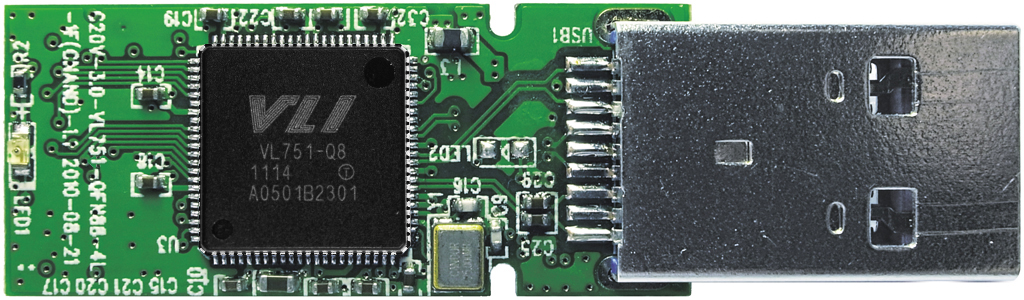 This is an image of an example of a USB 3.0 SuperSpeed Memory Stick board based on the VIA Labs, Inc VL751 USB 3.0 to NAND flash controller.